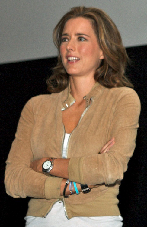 Téa Leoni at a screening for You Kill Me in San Francisco, California.